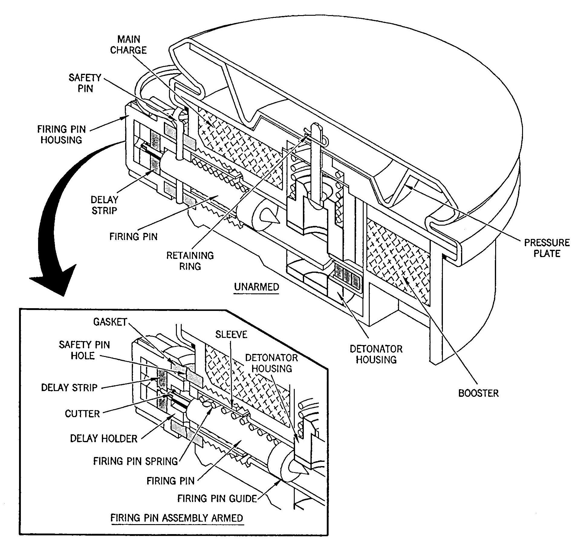 An Bulgarian PM-79 anti-personnel landmine - shown as a cutaway.